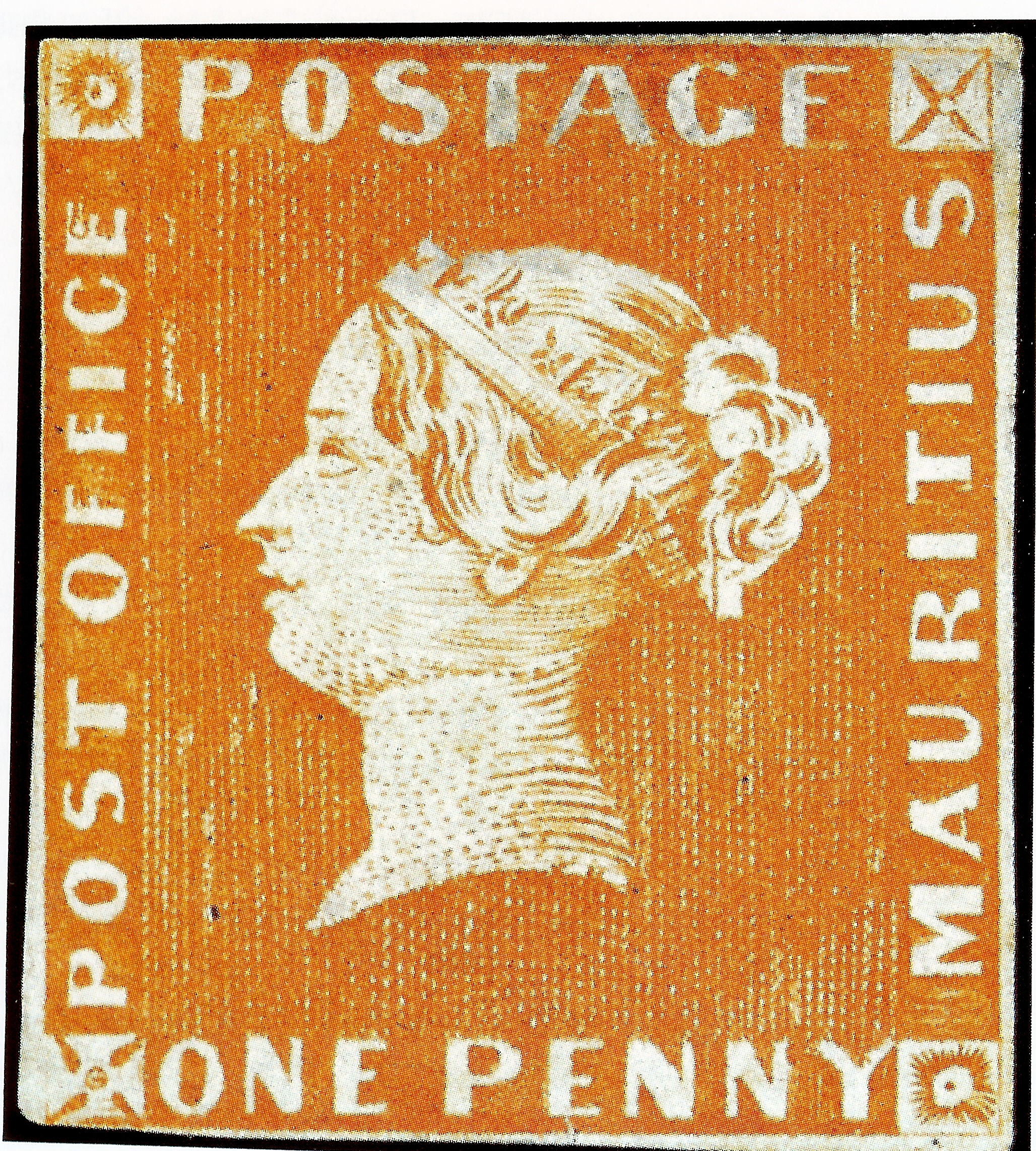 This is a scan of an image of a British Empire postage stamp issued in 1847.